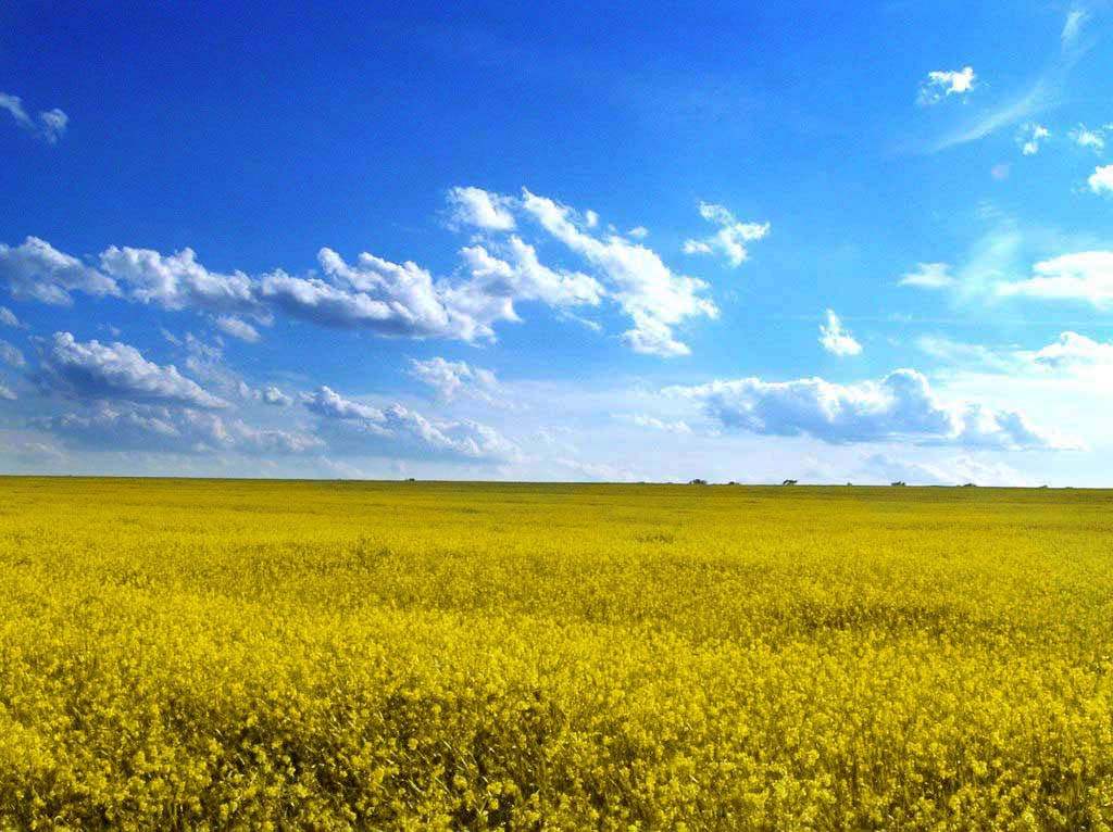 Field in Odessa Oblast, Ukraine